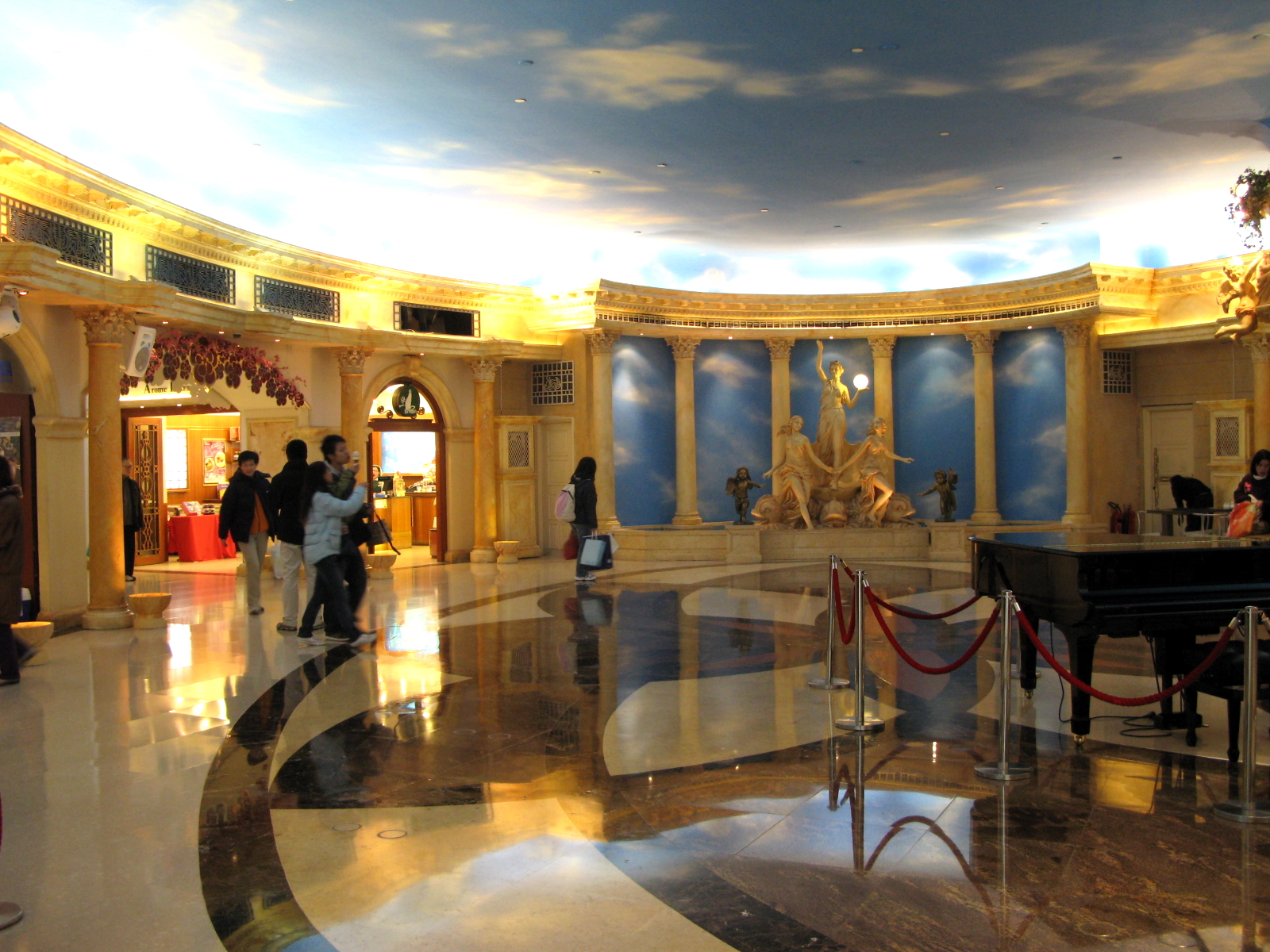 HK Heng Fa Chuen Paradise Mall Interior